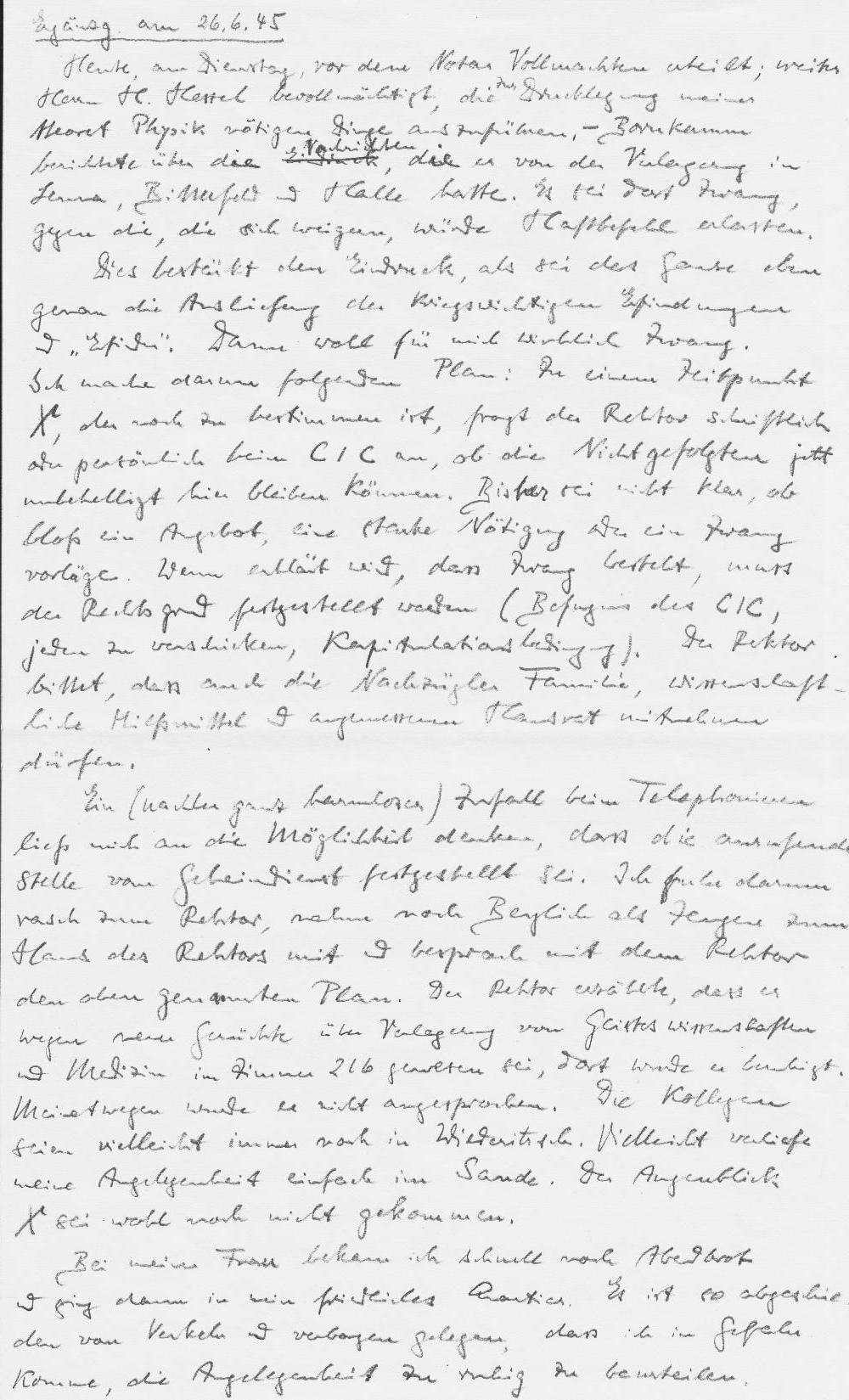 Page 5 of a manuscript by Friedrich Hund, 26 June 1945 at Leipzig (departure of the Americans).